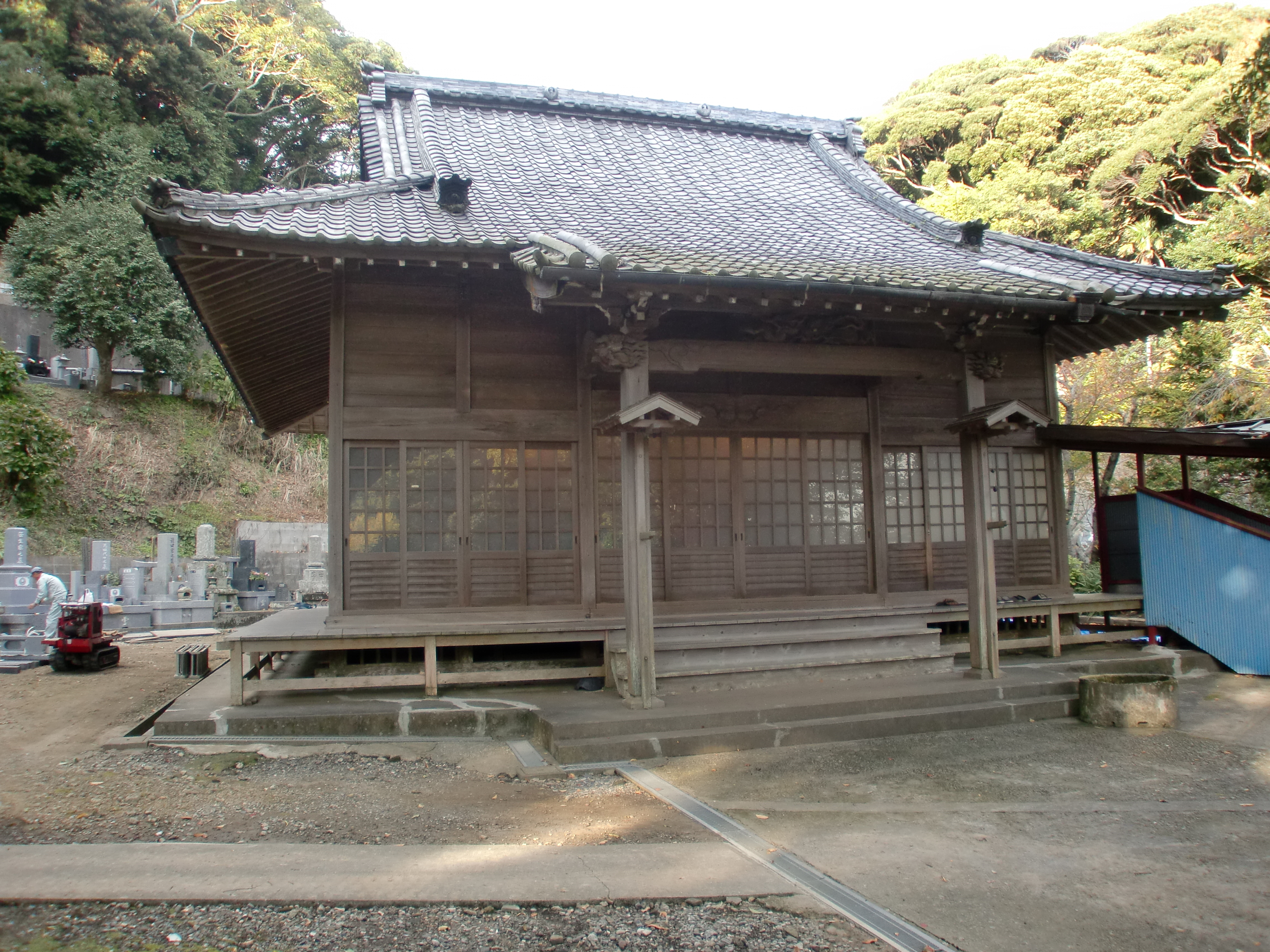 Main hall of the Myohon-ji temple in Kyonan Town, Chiba Prefecture, Japan